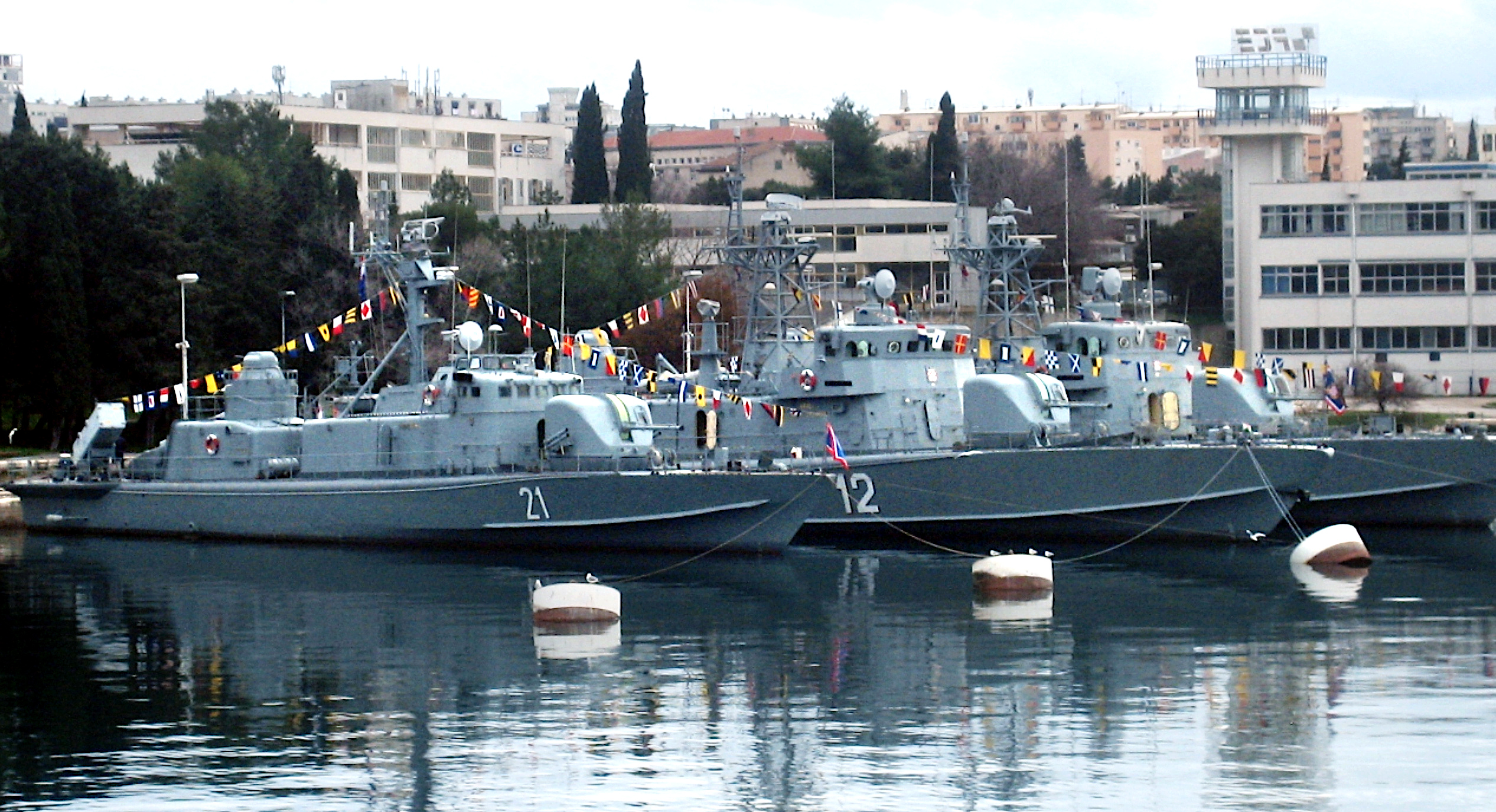 RTOP-21, 12 and 11